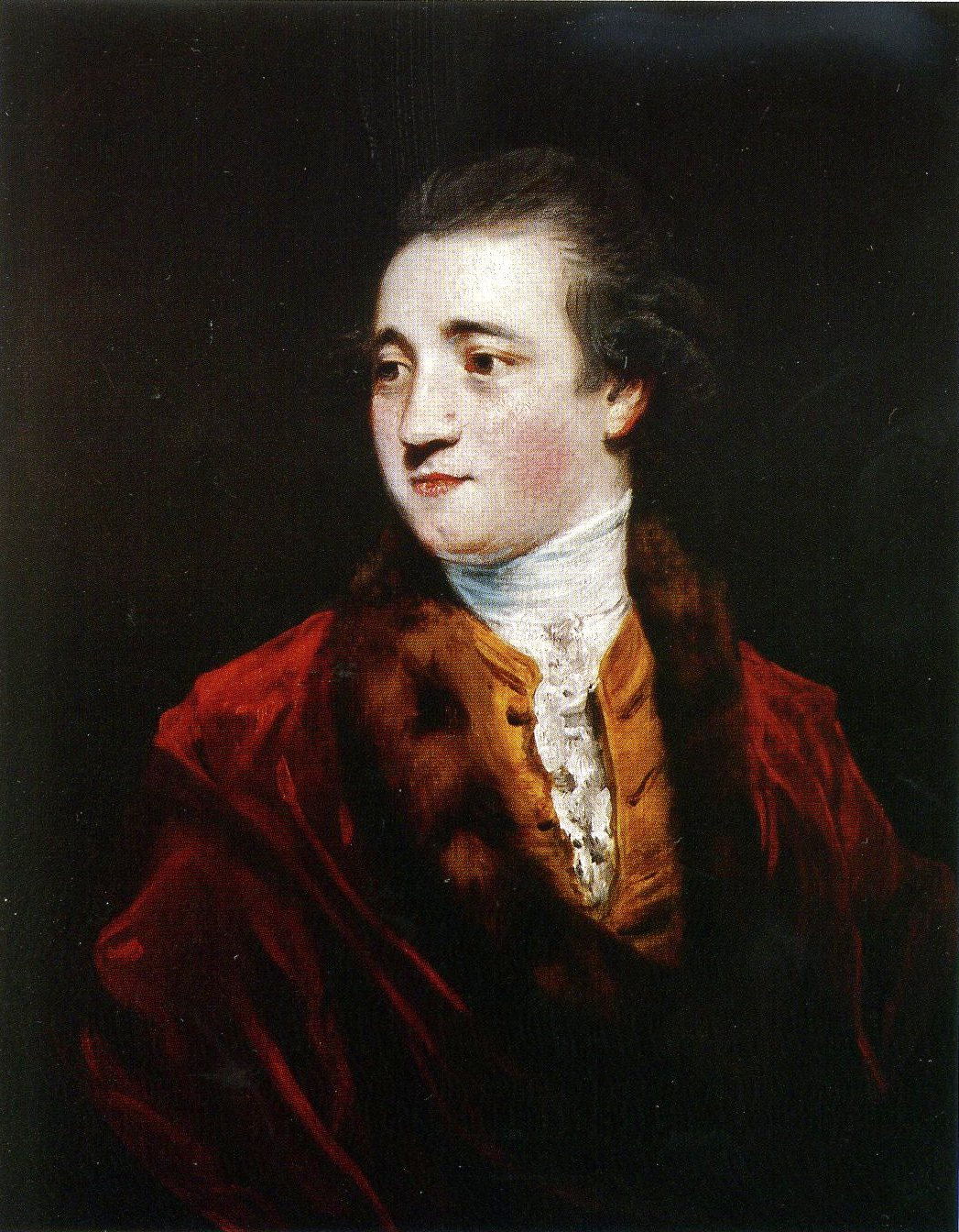 Charles Manners, 4th Duke of Rutland, oil on canvas by Joshua Reynolds, c. 1775